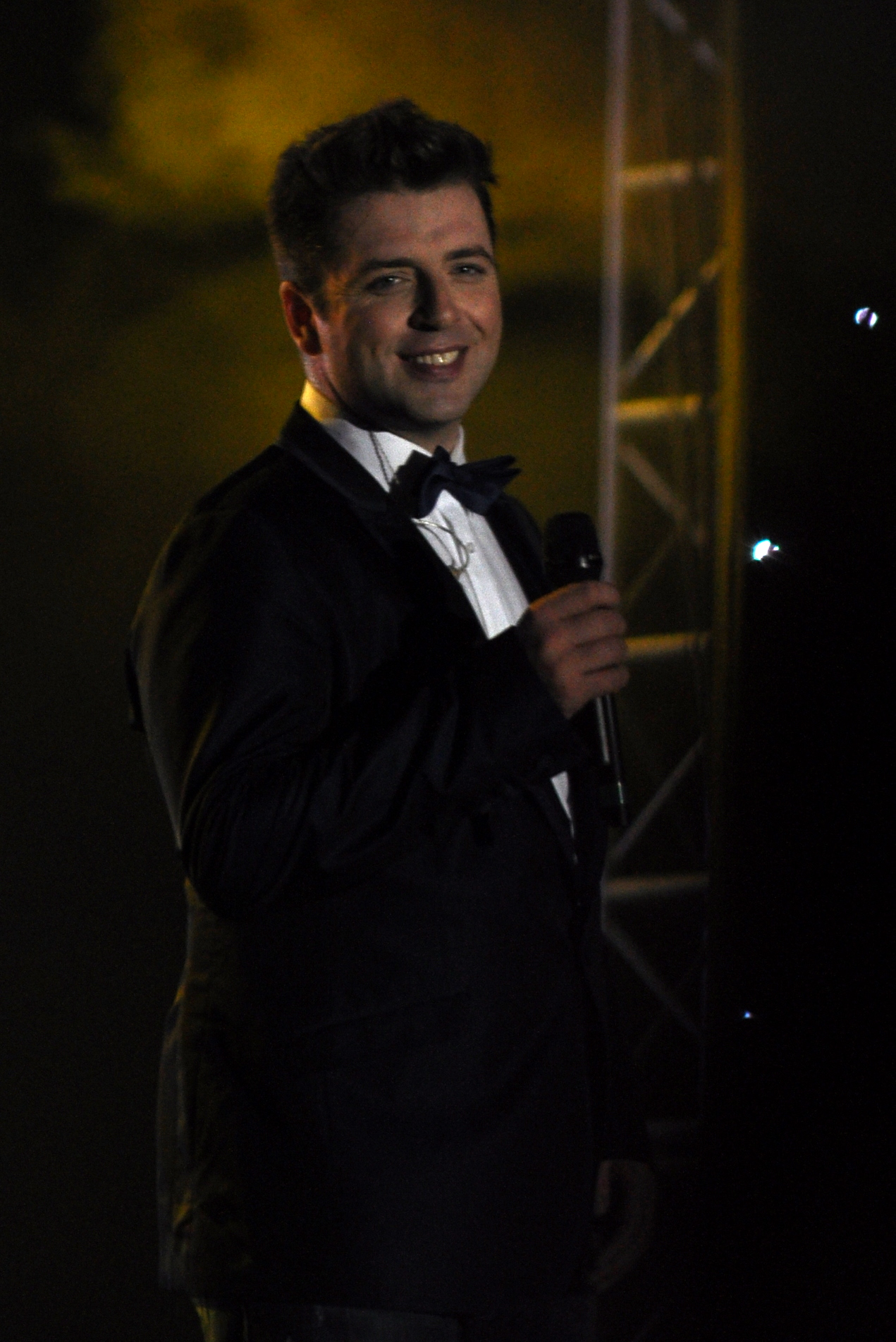 Mark Feehily performing live on Gravity Tour in October 2011 in Hanoi, Vietnam